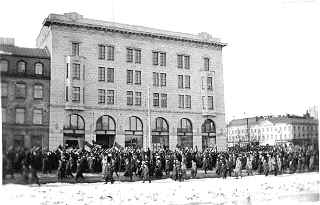 Workers on Bernhard street at Helsinki in 1917 during the general strike due to poor working coditions and food shortages. The building on Esplanadi now houses the headquarters of UPM.